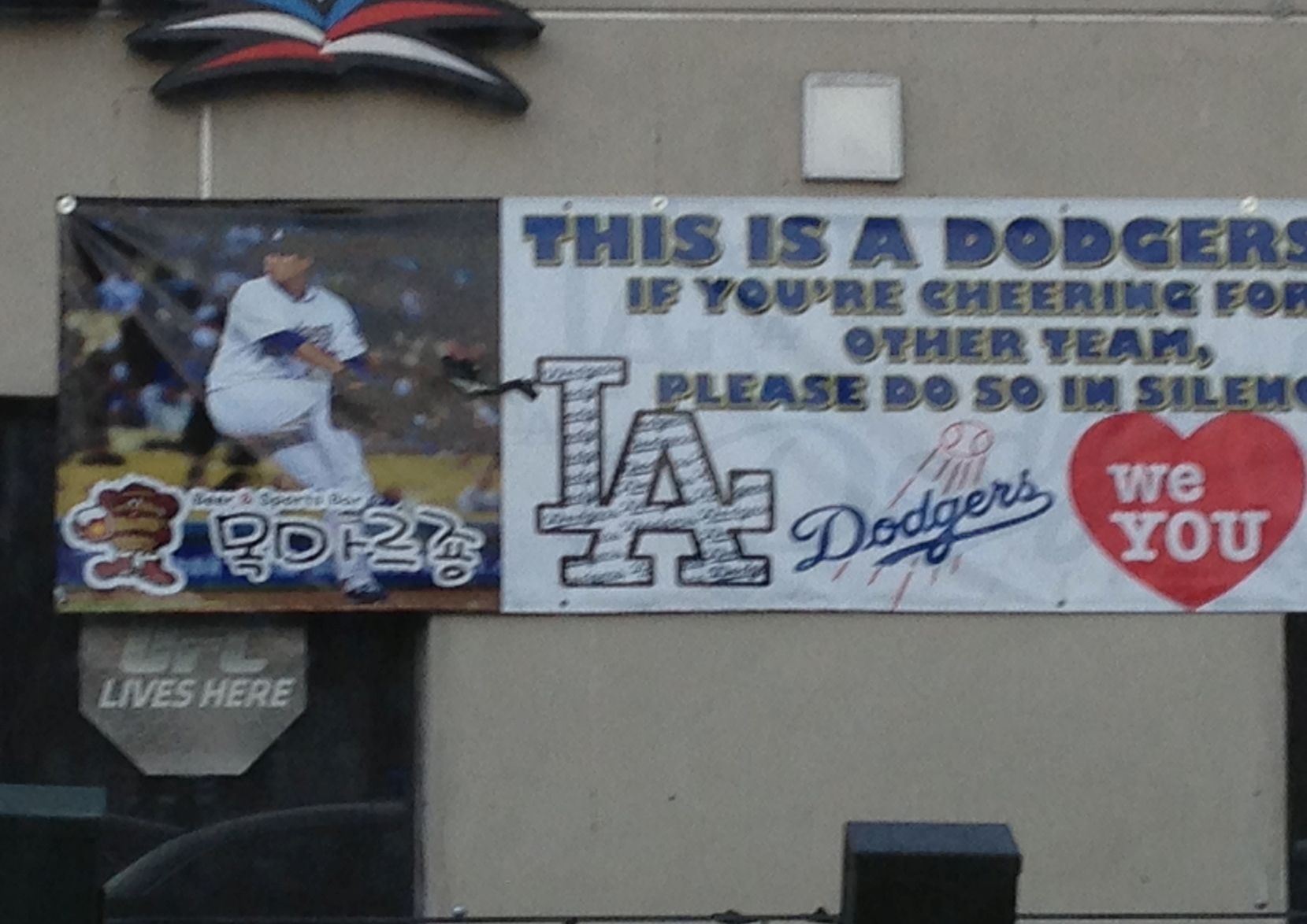 A banner supporting Dodgers' pitcher Ryu Hyun Jin hangs in Los Angeles' Koreatown